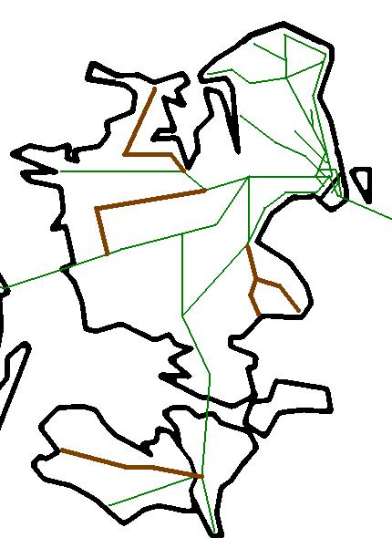 Map of railways on Sjælland (Zealand), Lolland and Falster with the private railway Regionstog in brown.